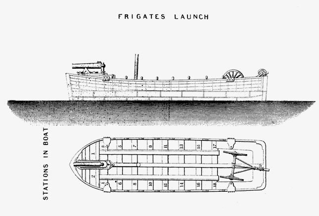 Line engraving of a Dahlgren boat howitzer mounted in a launch